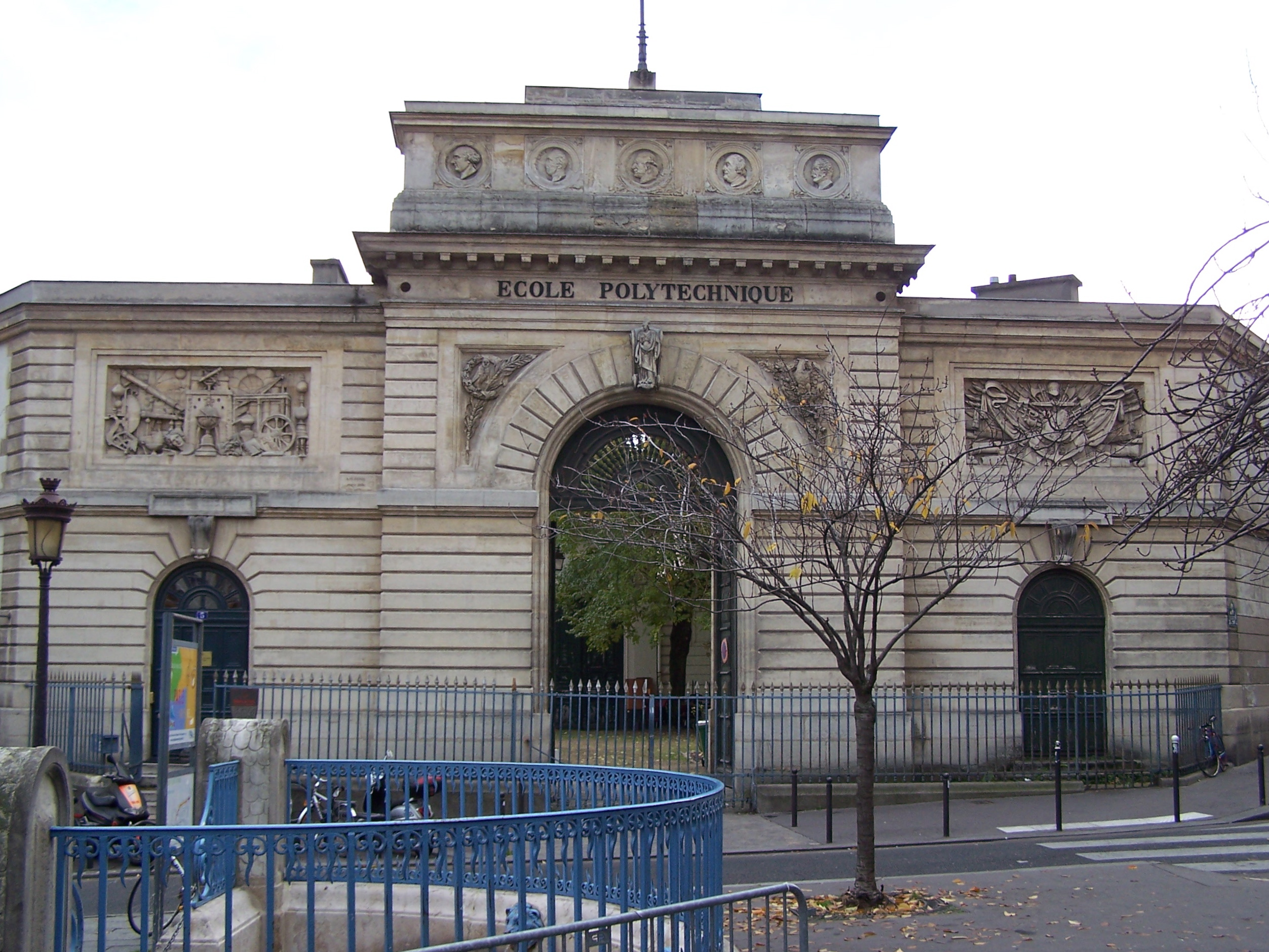 Entrée historique de l'école Polytechnique, rue Descartes à Paris